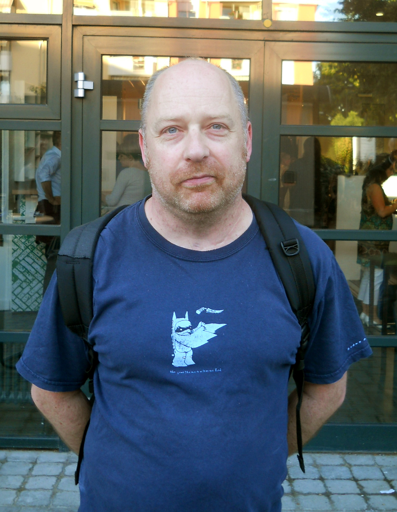 portrait of the british artist Tim Etchells (*1962)